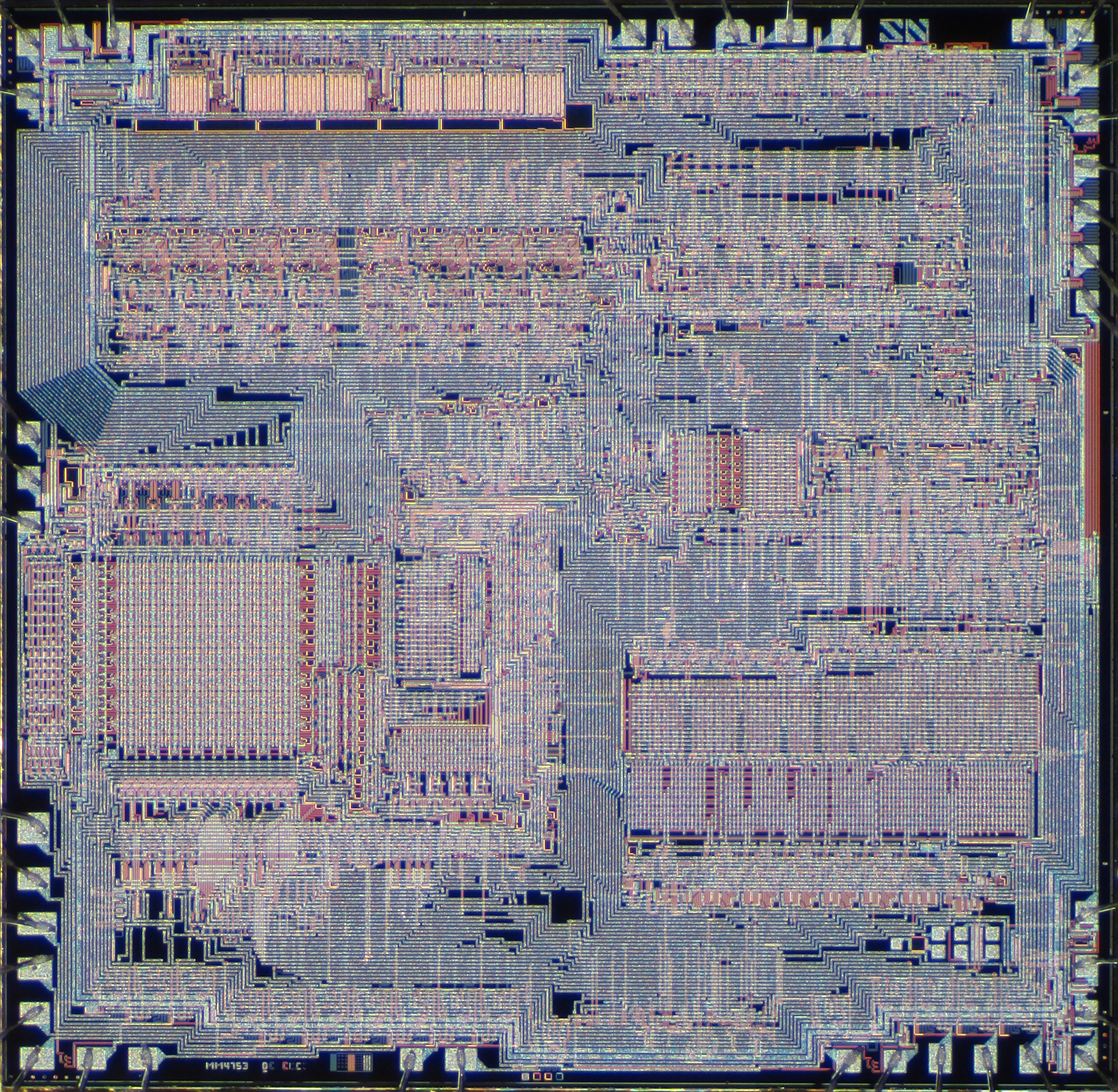 Die shot of National Semiconductor PACE microprocessor (IPC-16A/500D).